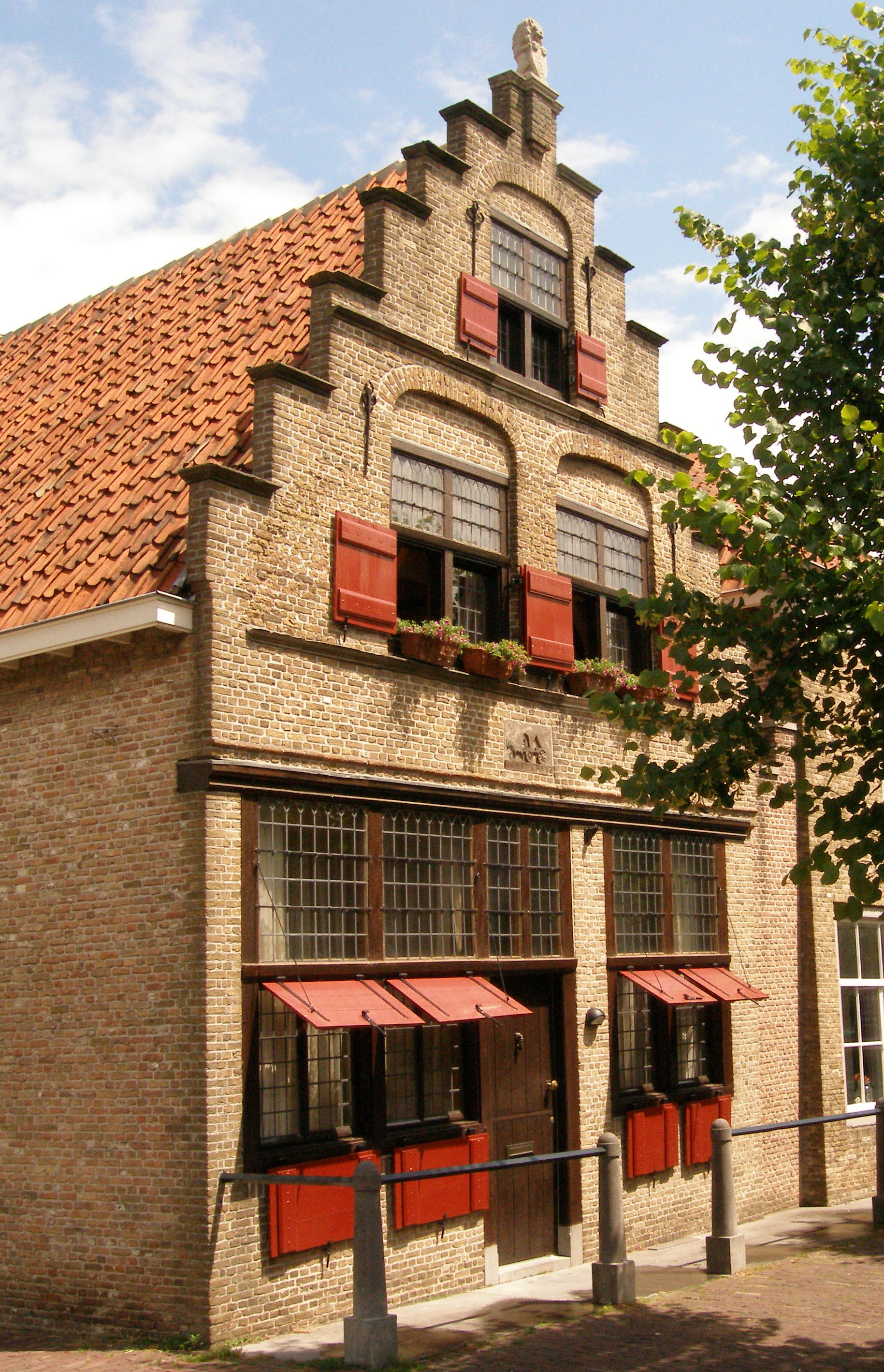 "Inde Vrachwage" ("in the lorry") was built in 1646. The address is Venestraat 29, Geertruidenberg (the Netherlands). The owner at the time, Cornelis Meertens de Jonge, was a driver.